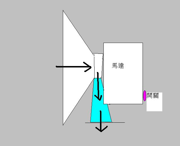 electric breast pump diagram